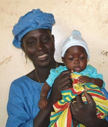 People of Gambia